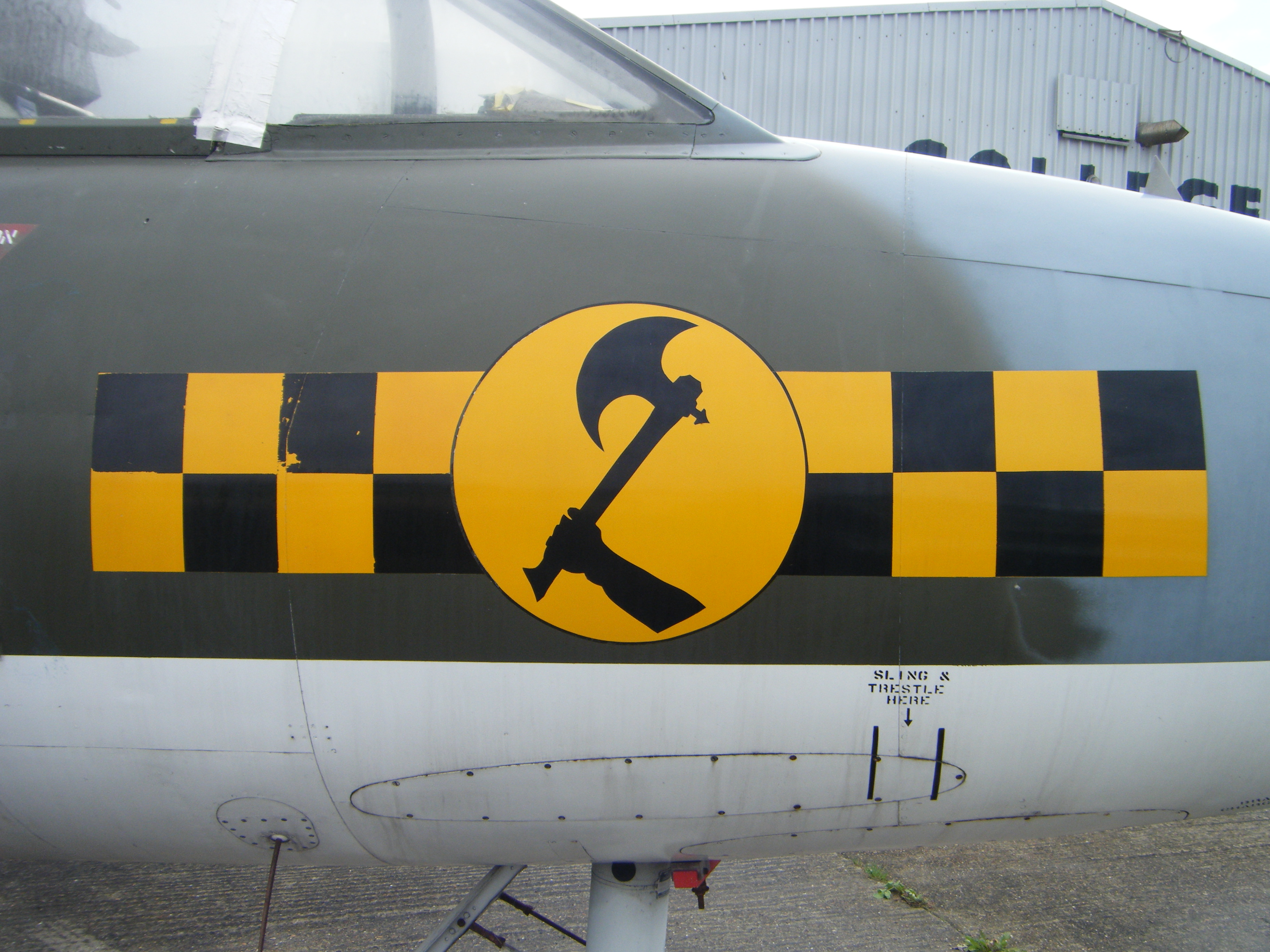 The squadron emblem of a Hawker Hunter F.6 on display at Shoreham (Brighton City) Airport, 11/10.